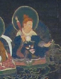 Ngakgi Wangpo, b.1580 - d.1639, The Third Dorje Drak Rigdzin